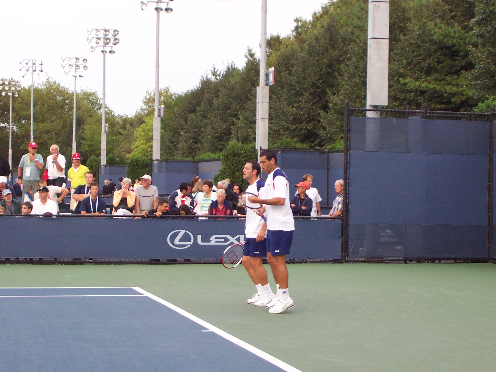 Israeli Duo Andy Ram & Jonathan Erlich At The 2006 U.S. Open